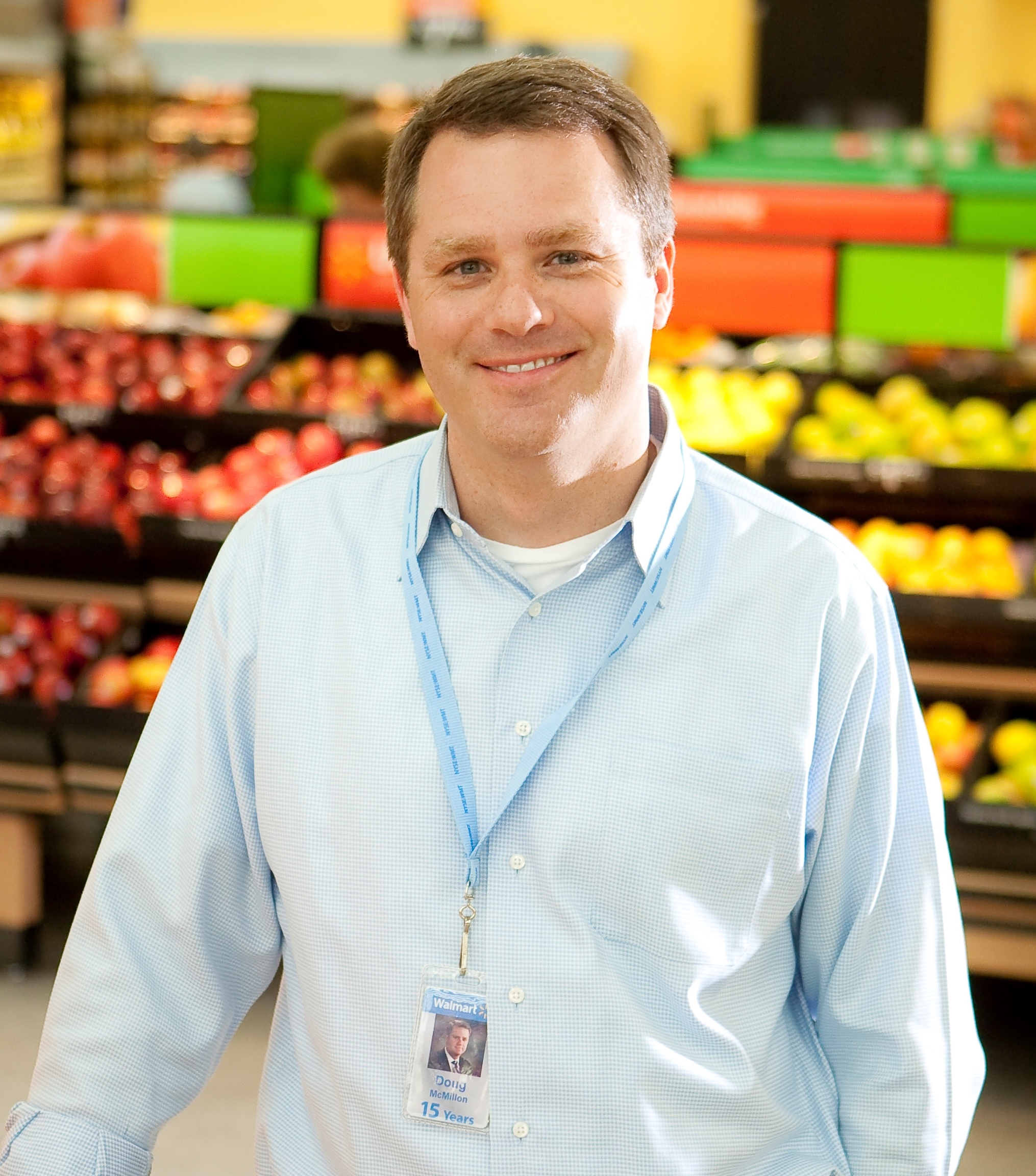 Doug McMillon, president and CEO of Wal-Mart Stores, Inc.